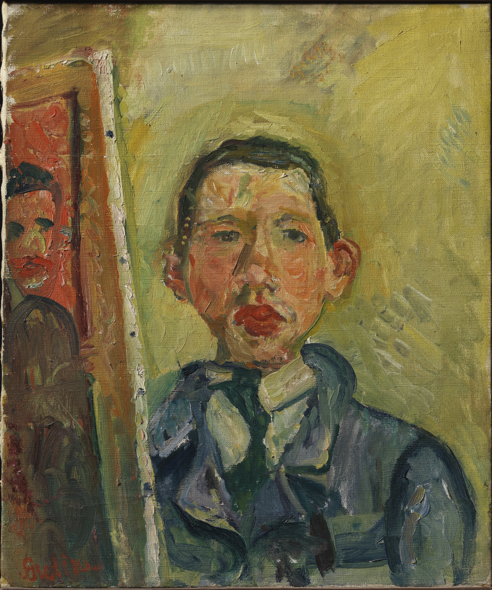 Chaïm Soutine, Russian, active in France, 1893–1943 Self-Portrait, ca. 1918 Oil on canvas 54.6 x 45.7 cm. (21 1/2 x 18 in.) frame: 80.7 x 71.1 cm (31 3/4 x 28 in.) The Henry and Rose Pearlman Foundation, on long-term loan to the Princeton University Art Museum L.1988.62.23